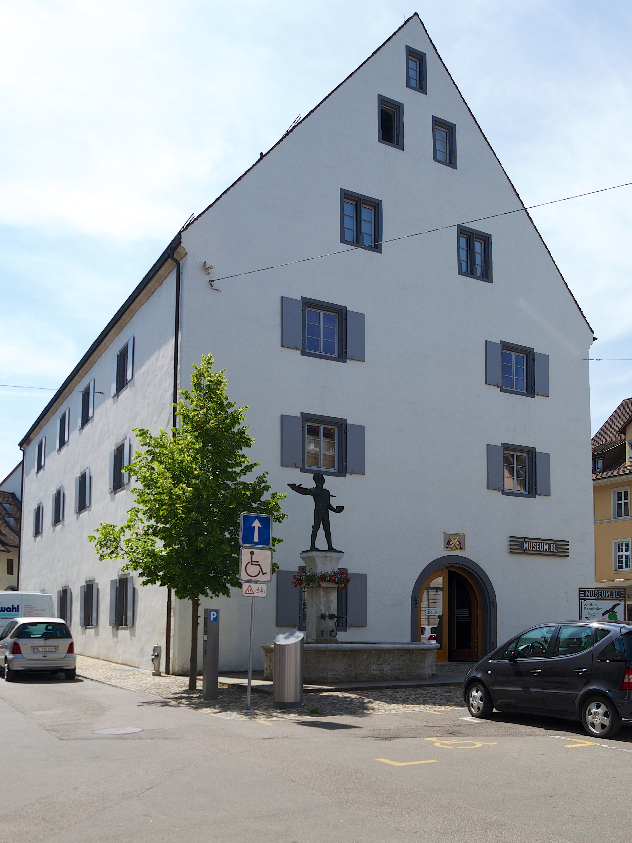 the cantonal museum of the Canton of Basel-Landschaft, Liestal, Switzerland